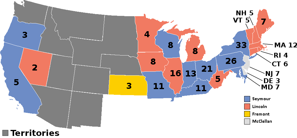 Guns of the South is an alternate history novel with the divergence involving time travelers from the future sending shipments of modern arms including AK-47's to prevent the Union from winning. This shows the result of the 1864 American election some time after this event has happened.